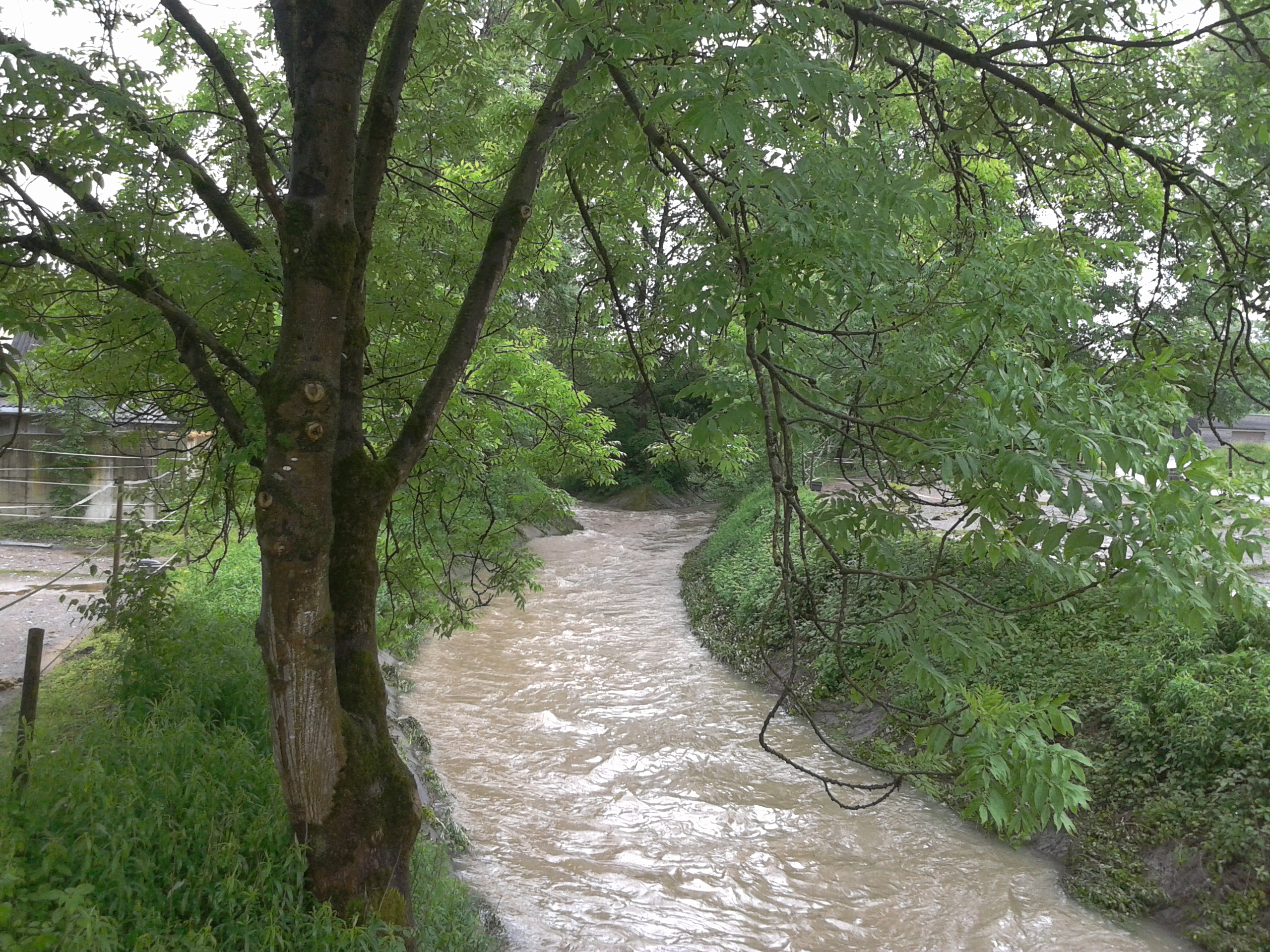 Fussenauer Kanal in the marsh (Ried) in Dornbirn, Vorarlberg, Austria after the Confluence Fischbach - Karlesgraben on 26/05/2015 shortly after a damp (60 l / m² / h)